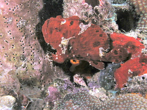 Initially identified as red oscellated frogfish (Antennarius ocellatus) in a sponge, St. Kitts. Subsequently identified by Ross Robertson as Antennarius multiocellatus